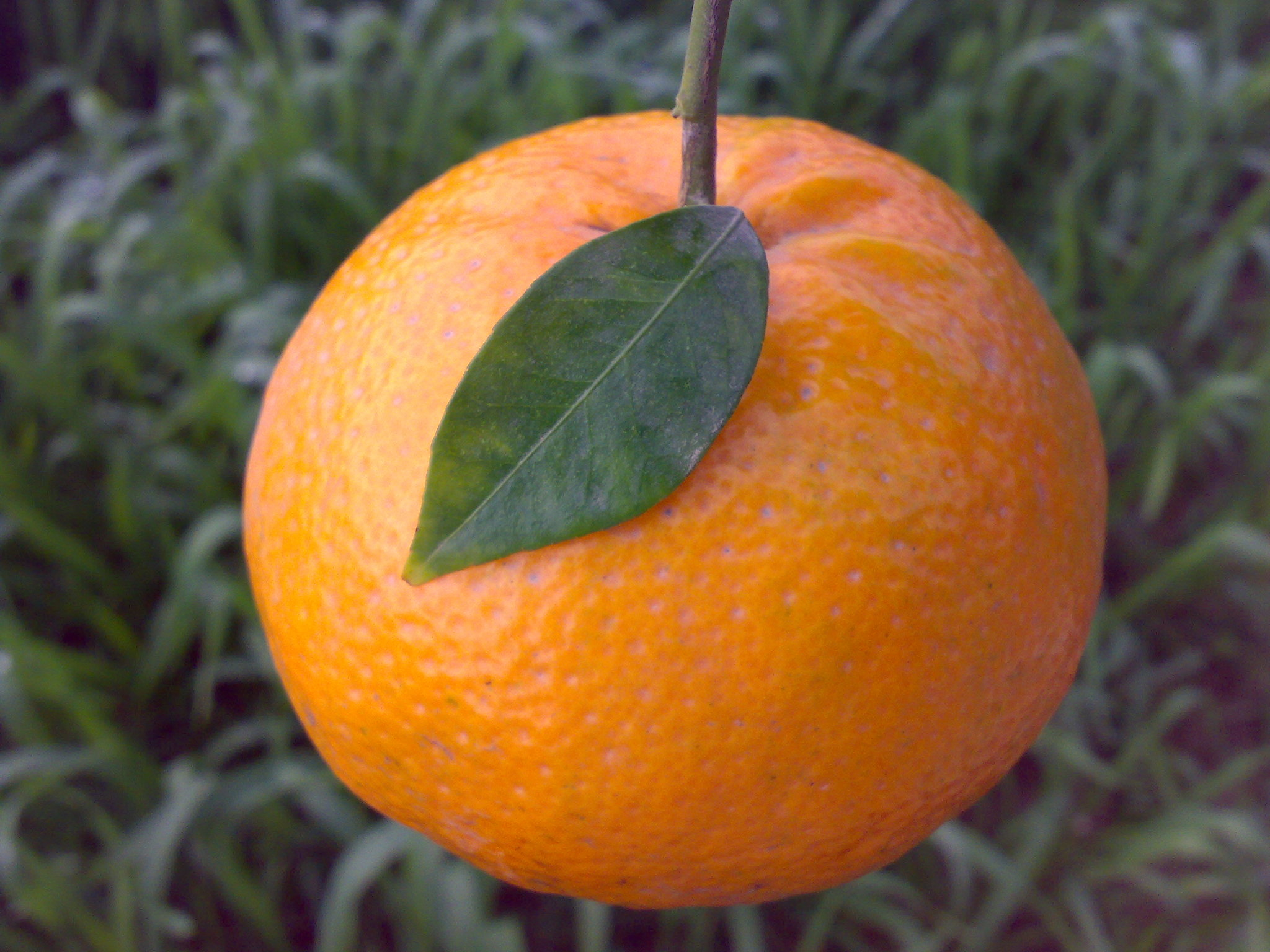 Kinnow, a variety of Mandarin orange widely cultivated in Pakistan.